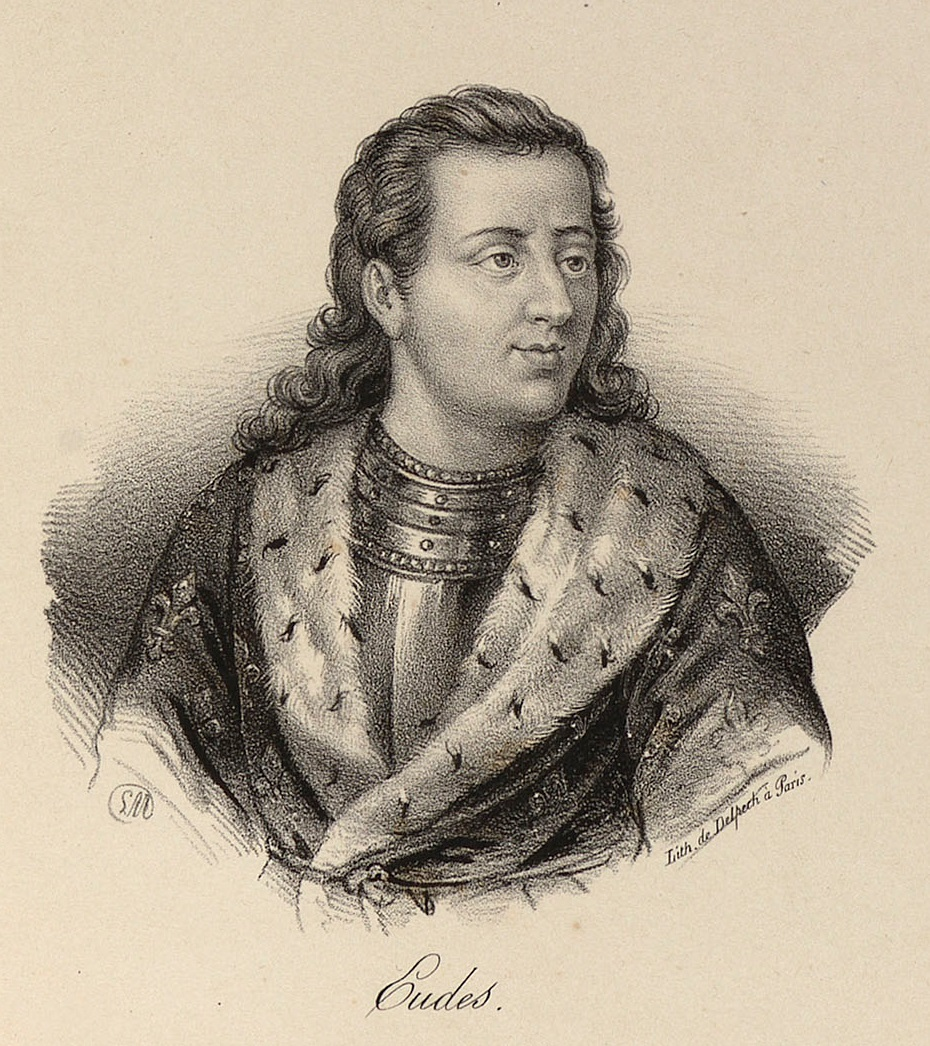 Odo of France (c.859/60 – 898)